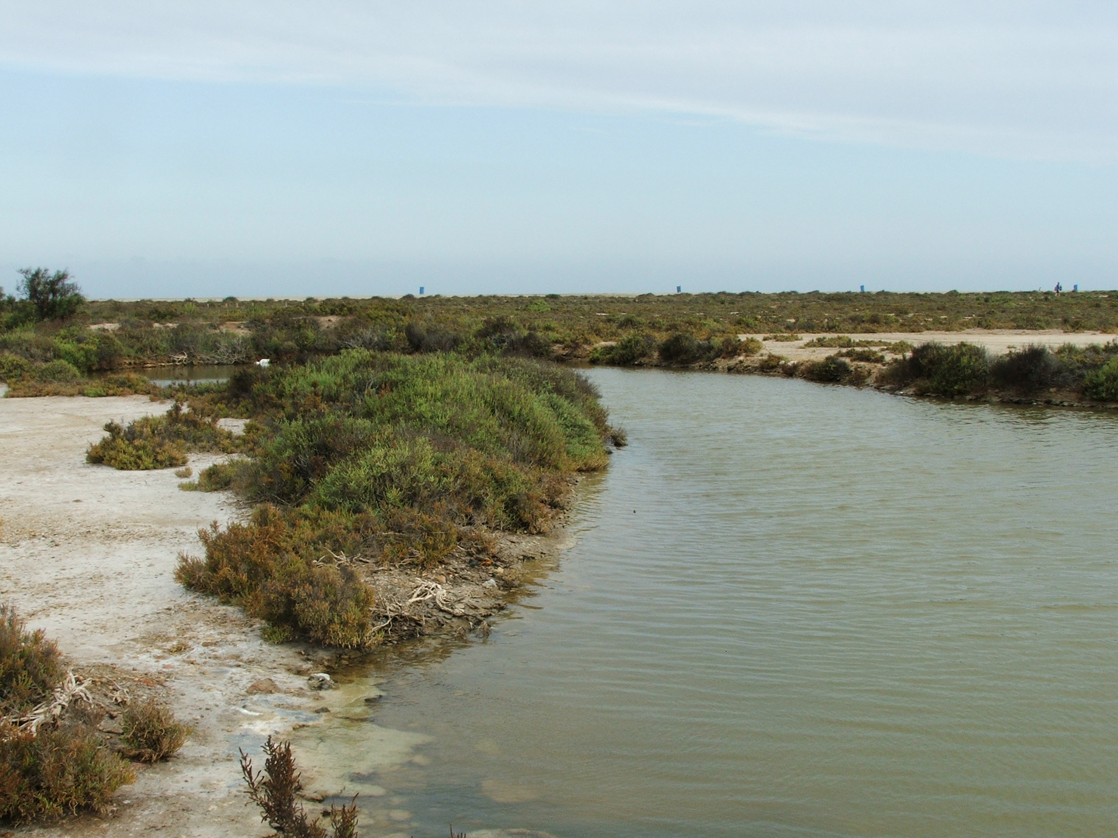 Punta Entinas-Sabinar natural park pond